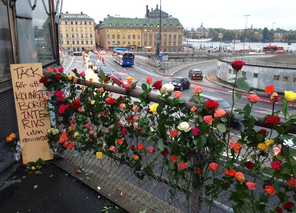 Protest rally of roses from over 100 persons to save the Kolingsborg building, sign by Emil Eikner (all removed within hours by the City of Stockholm)Place: Kolingsborg, Slussen, Stockholm, Sweden